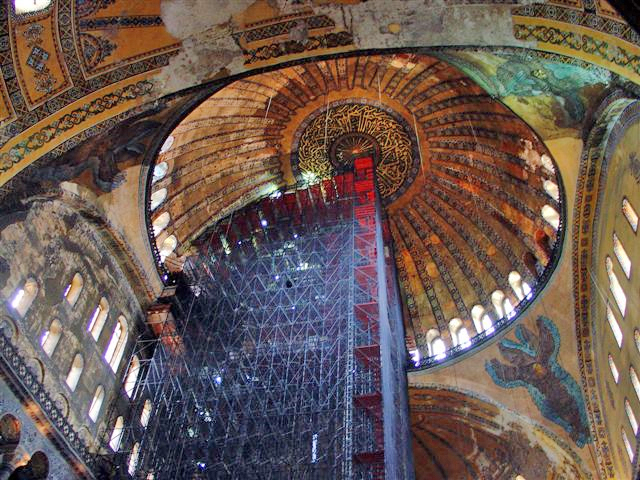 The dome of the Hagia Sophia undergoing restoration, Istanbul, Turkey.